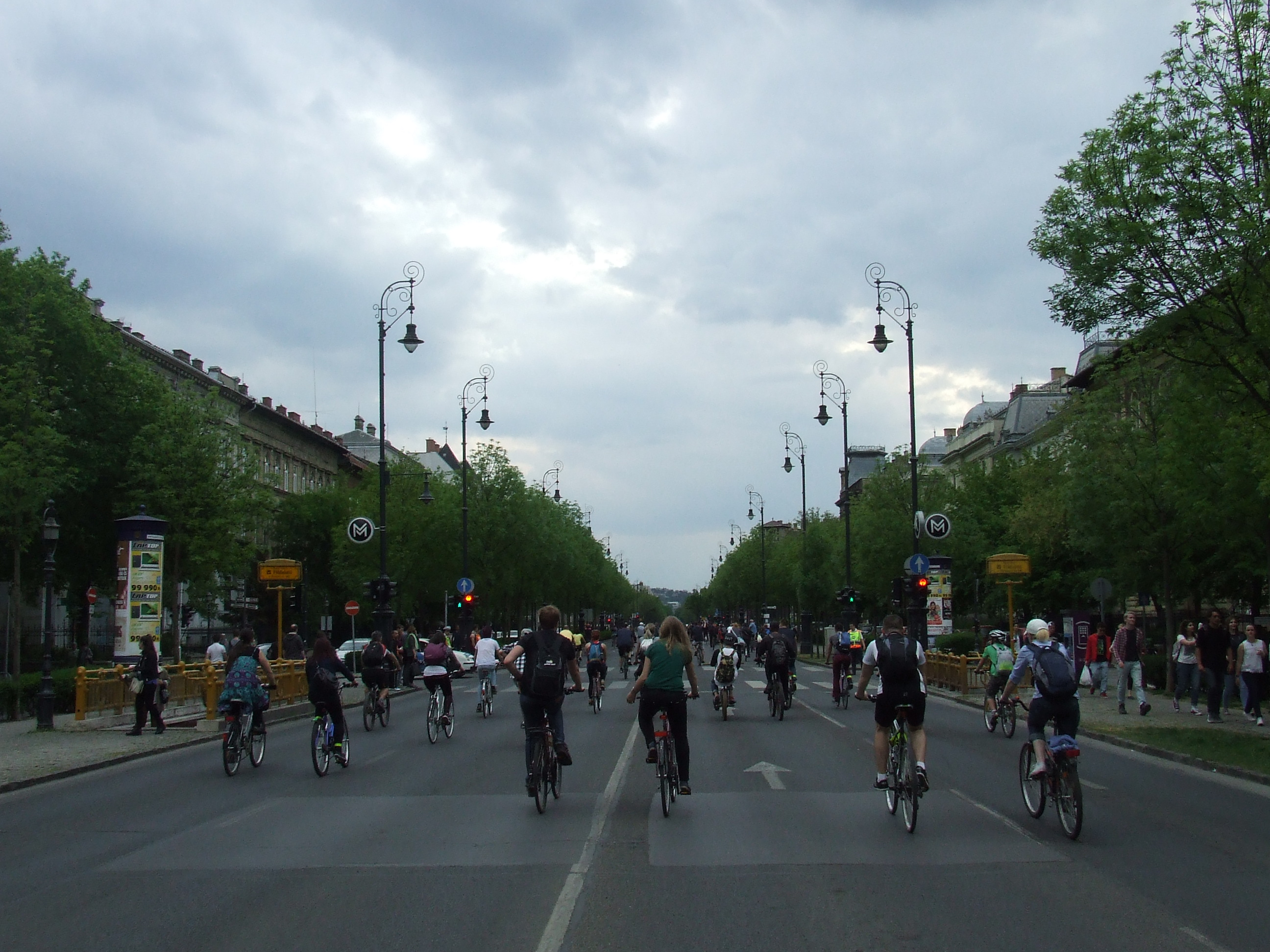 I bike Budapest 2016